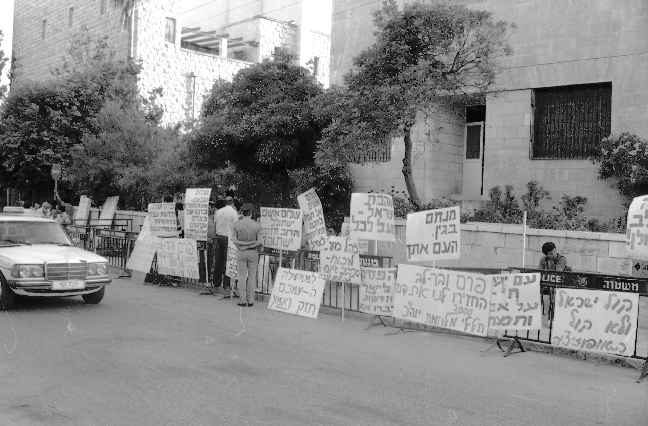 Politics of Israel